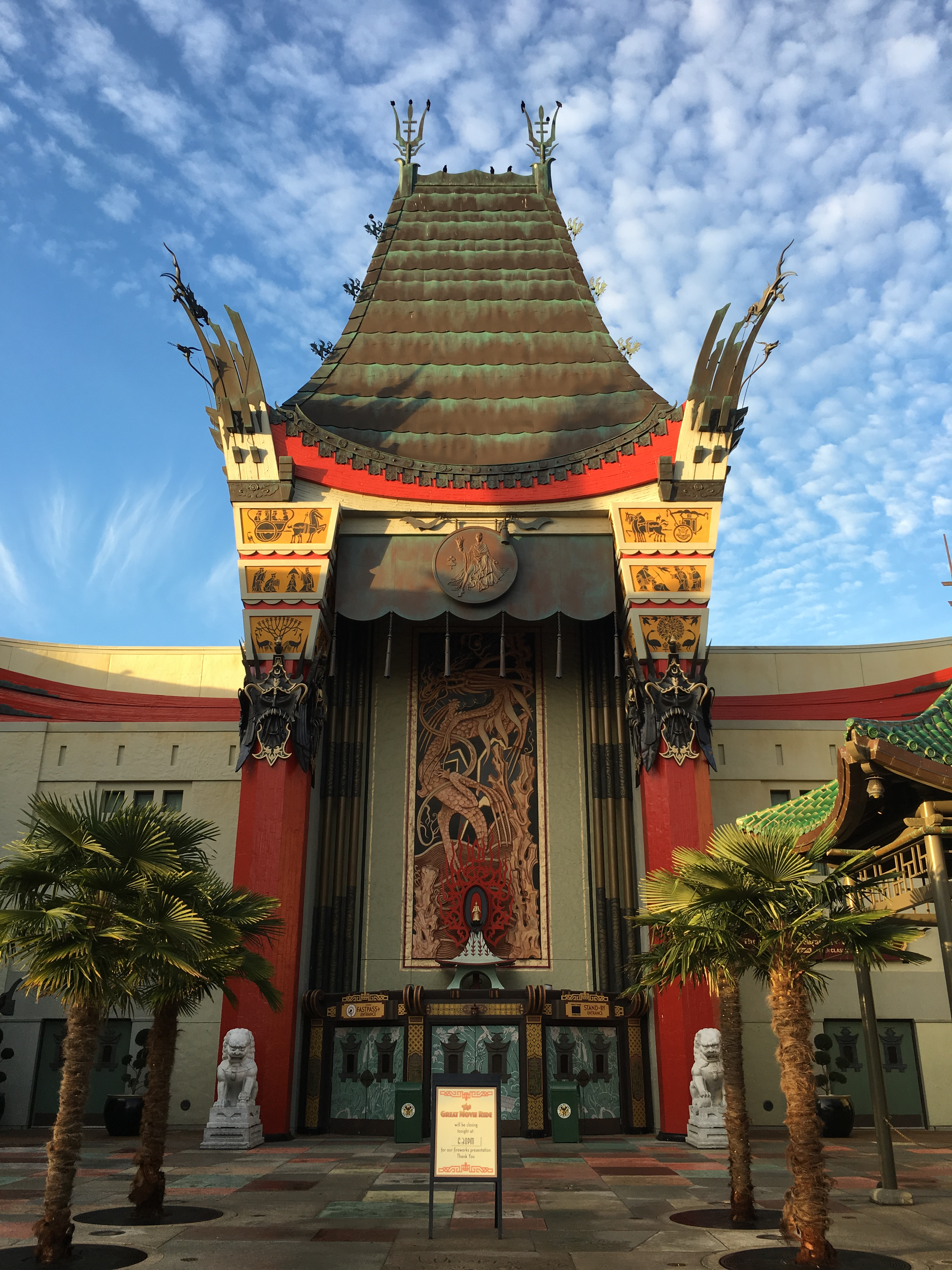 The Chinese Theatre at Disney's Hollywood Studios in Walt Disney World Resort. It's home to the Great Movie Ride.